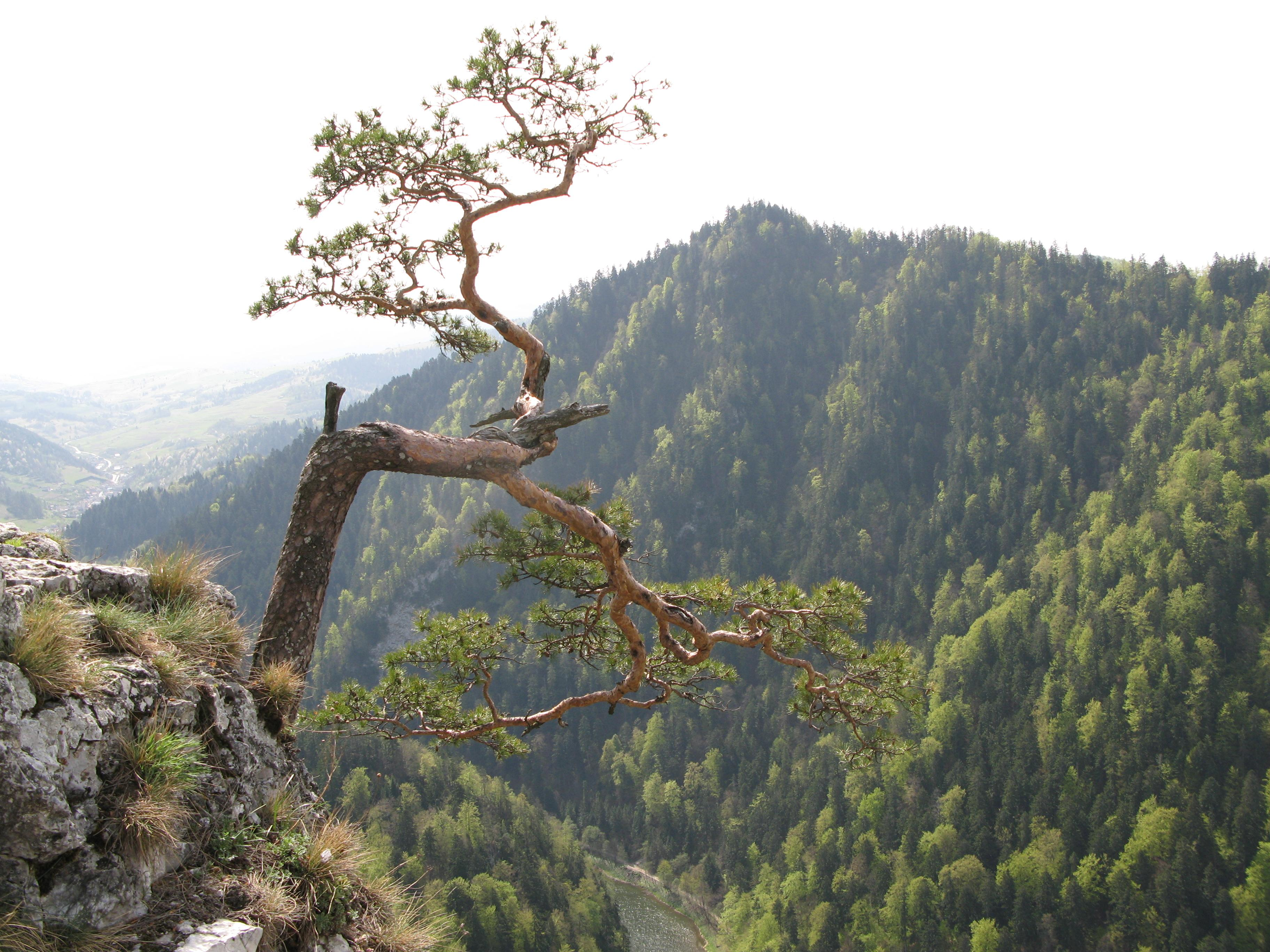 Pinus on Sokolica, Pieniny, Poland